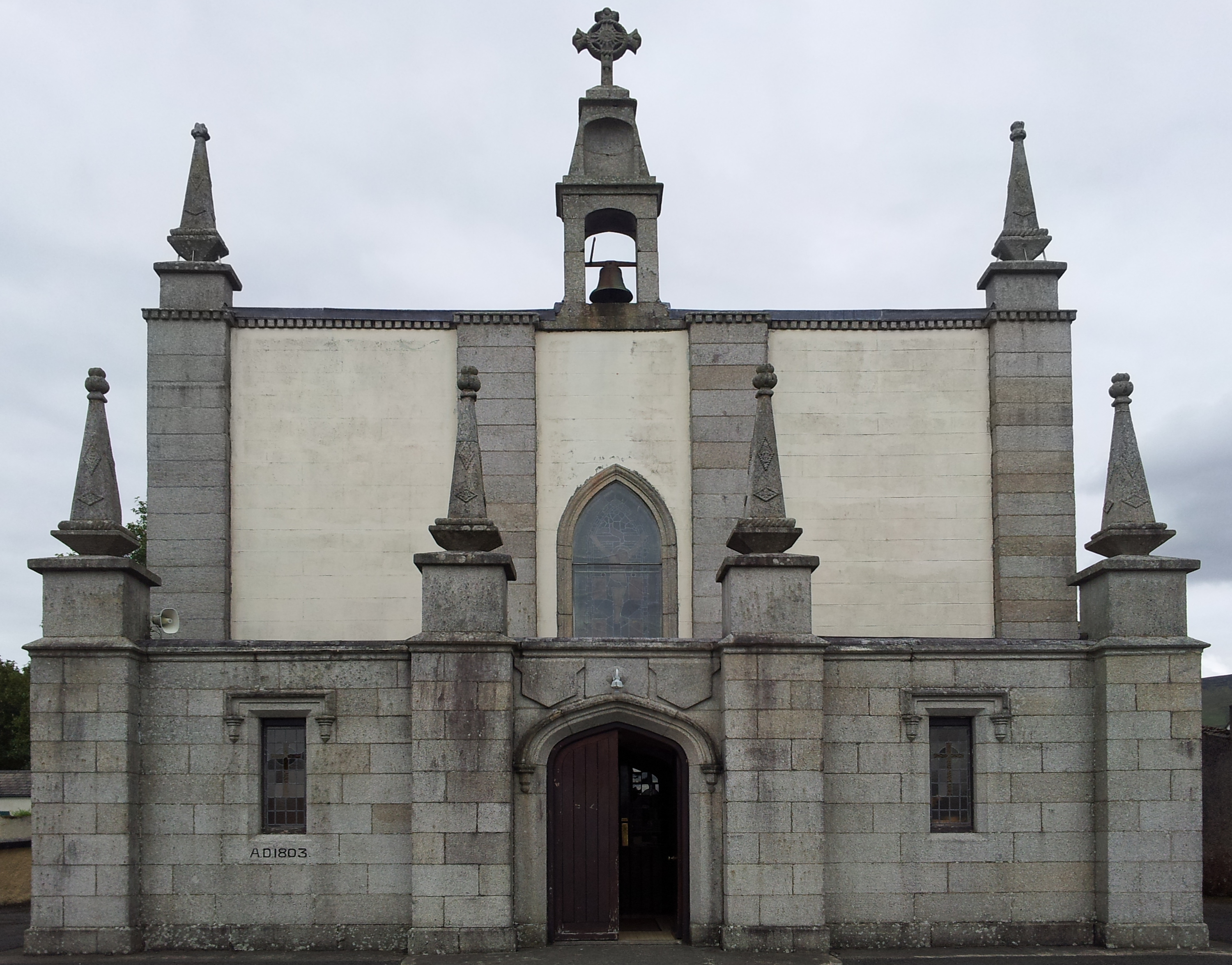 St. Joseph's parish church, Valleymount, Co. Wicklow, Ireland.